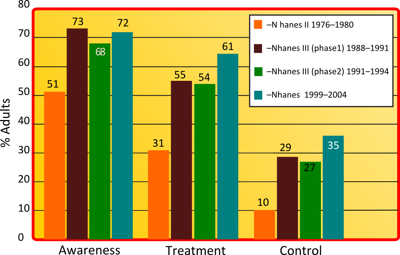 Data regarding awareness, control and treatment of hypertension according to [1] for 1976-2004